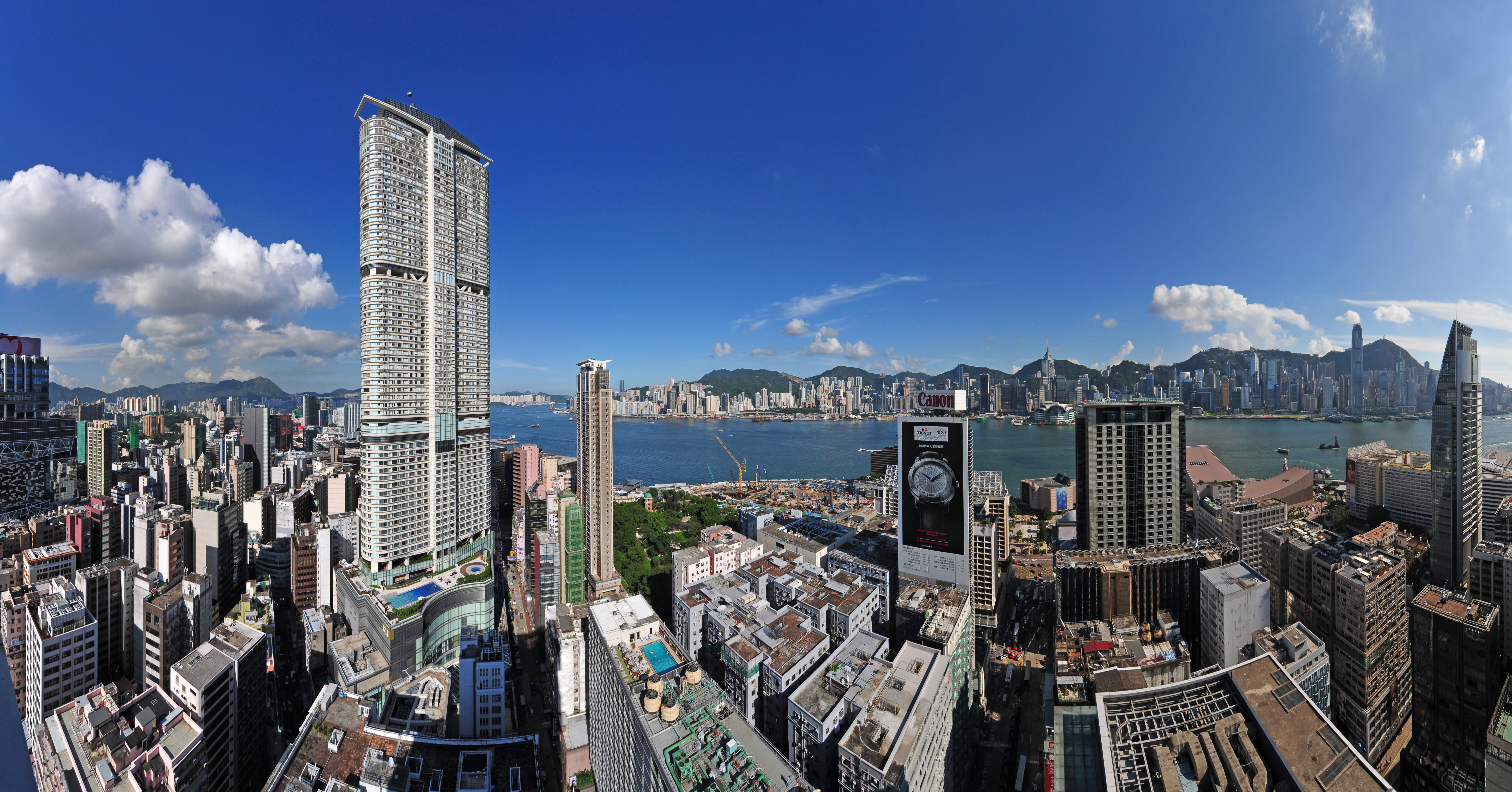 Hong Kong: View from Tsim Sha Tsui, Kowloon to Hongkong Island